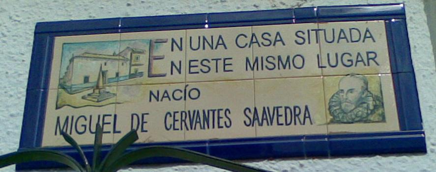 Cervantes photo